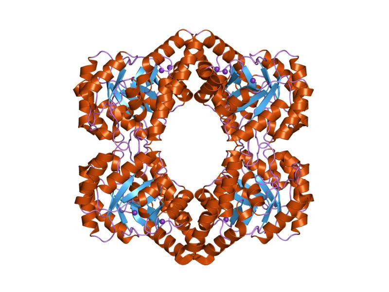 Cartoon representation of the molecular structure of protein registered with 1xky code.